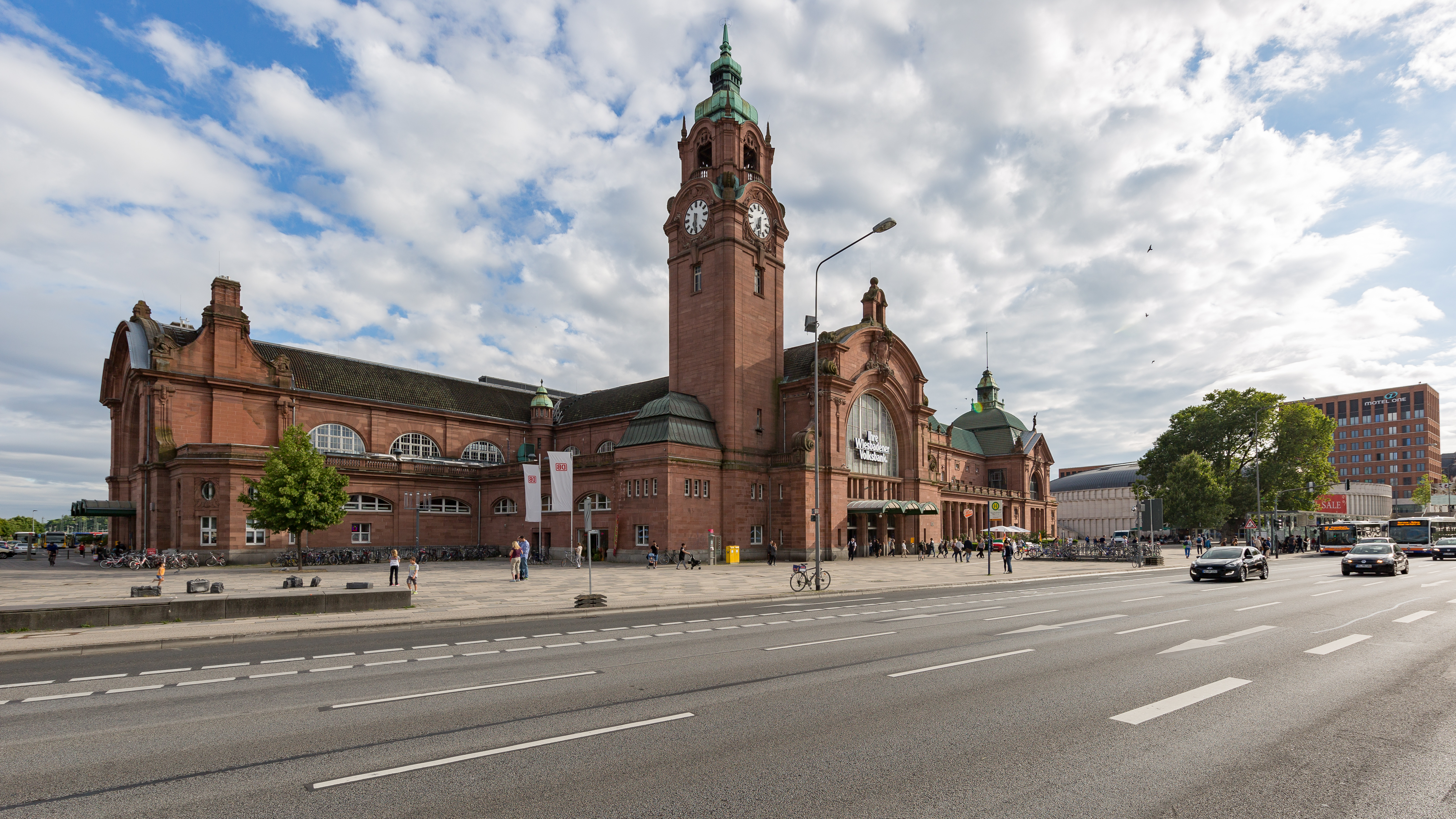 Wiesbaden Hauptbahnhof